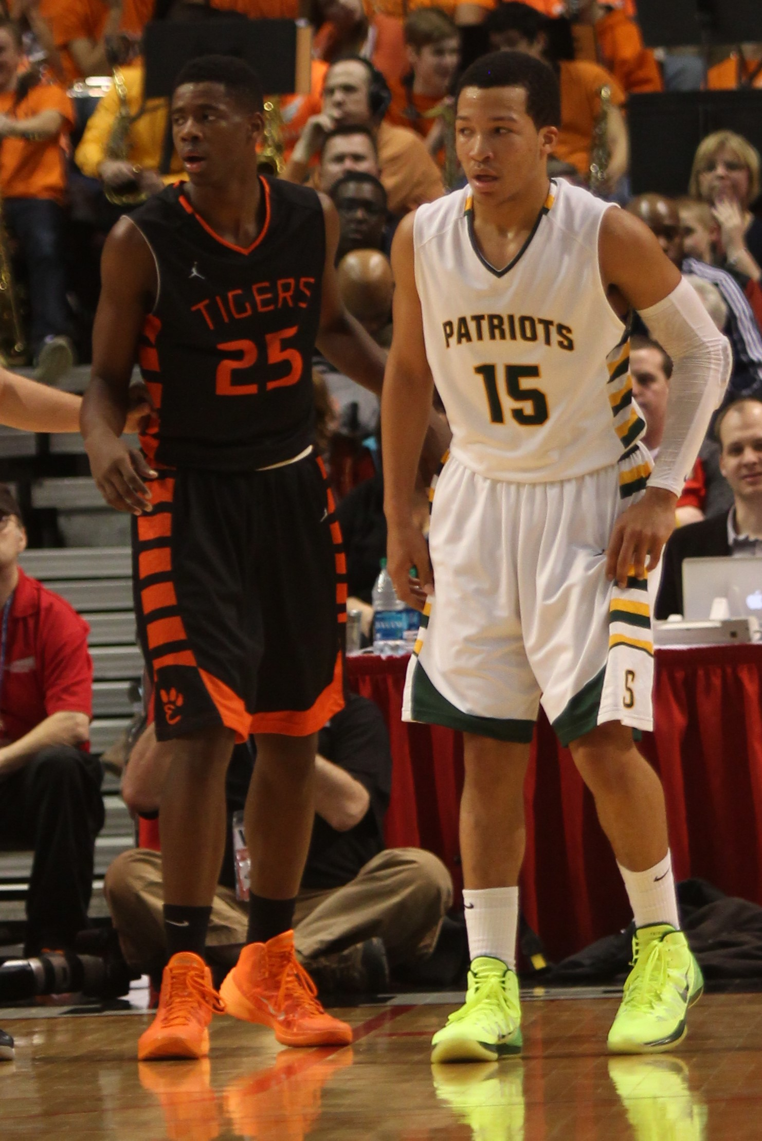 Jalen Brunson and Armon Fletcher at the 2014 Class 4A Illinois High School Association consolation game